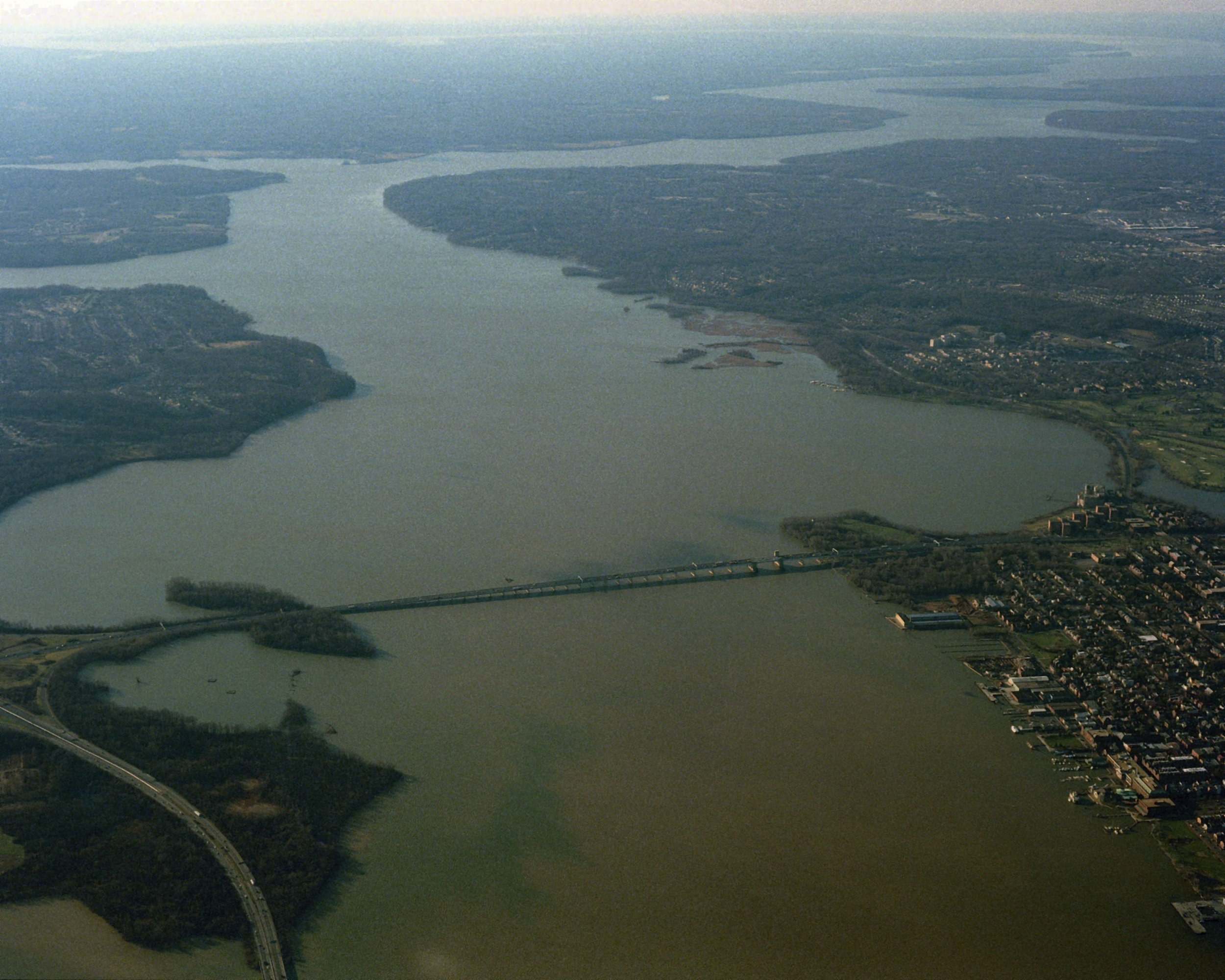 An aerial view of a portion of the Potomac River immediately south of Washington, District of Columbia, spanned at this point by the Woodrow Wilson Memorial Bridge. Maryland is at left, Virginia is at right.